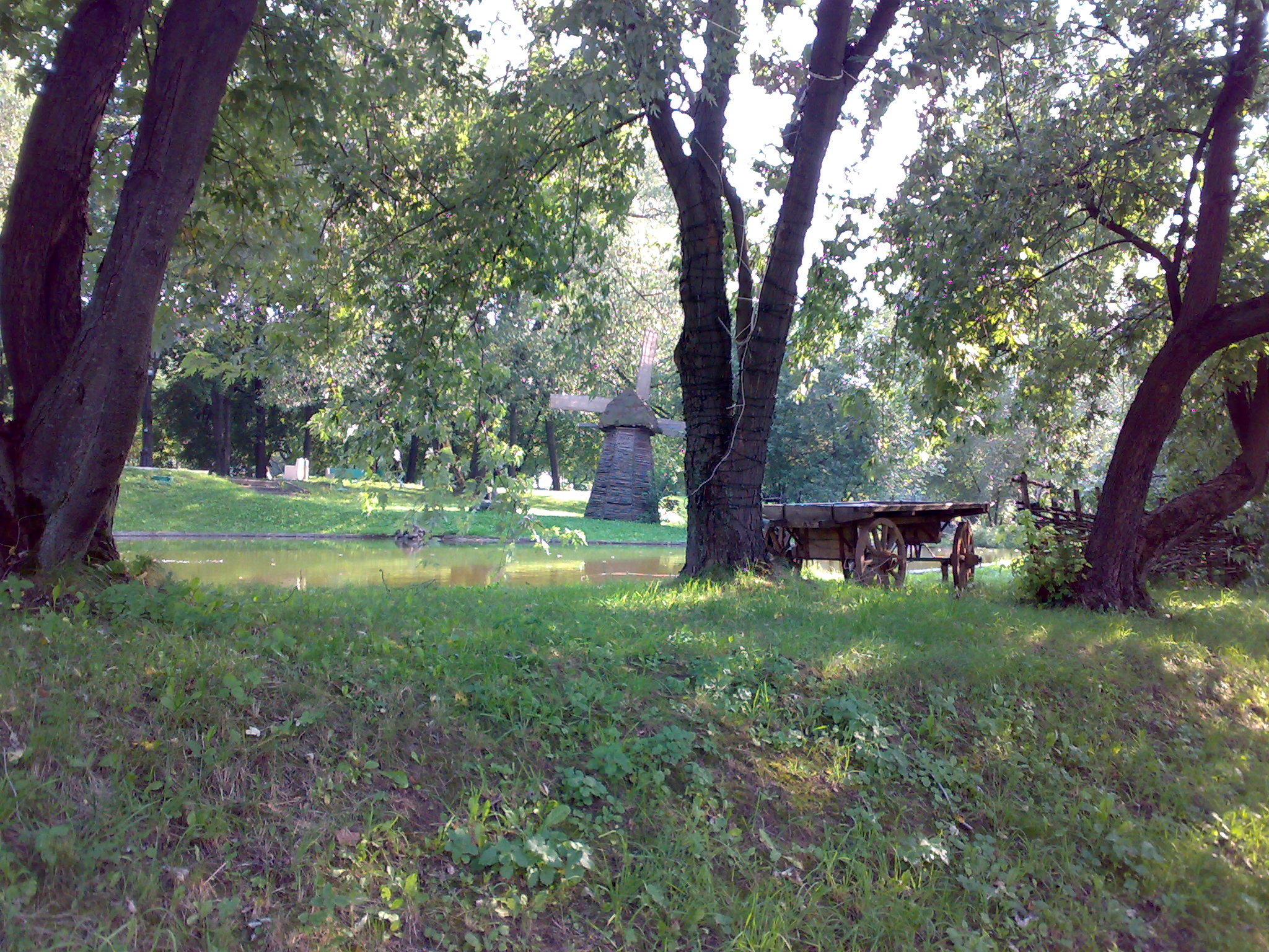 took this image using my mobile phone, on 7 September, 2008. Pond in a park, Mosfilm Studios, Moscow.